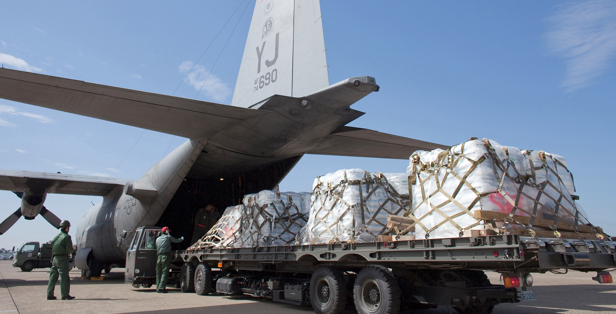 Members of the Japanese Self-Defence Force unload a U.S. Air Force Lockheed C-130H Hercules (s/n 74-1690) of the 374th Airlift Wing, from Yokota Air Base, delivering chemical Boron for the damaged Fukushima Daiichi nuclear power plant, at Hyakuri Air Base, Japan.